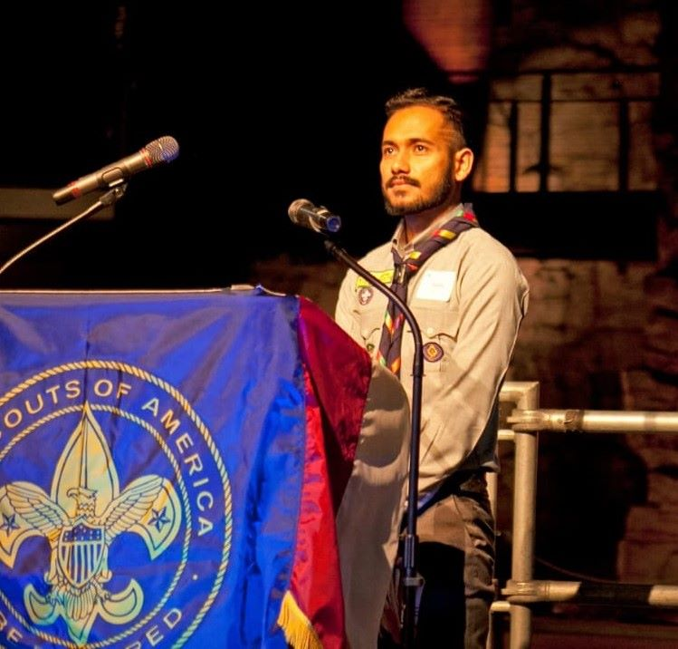 Sharing Mount Everest summit experience as a first Scout from both South and North Side.